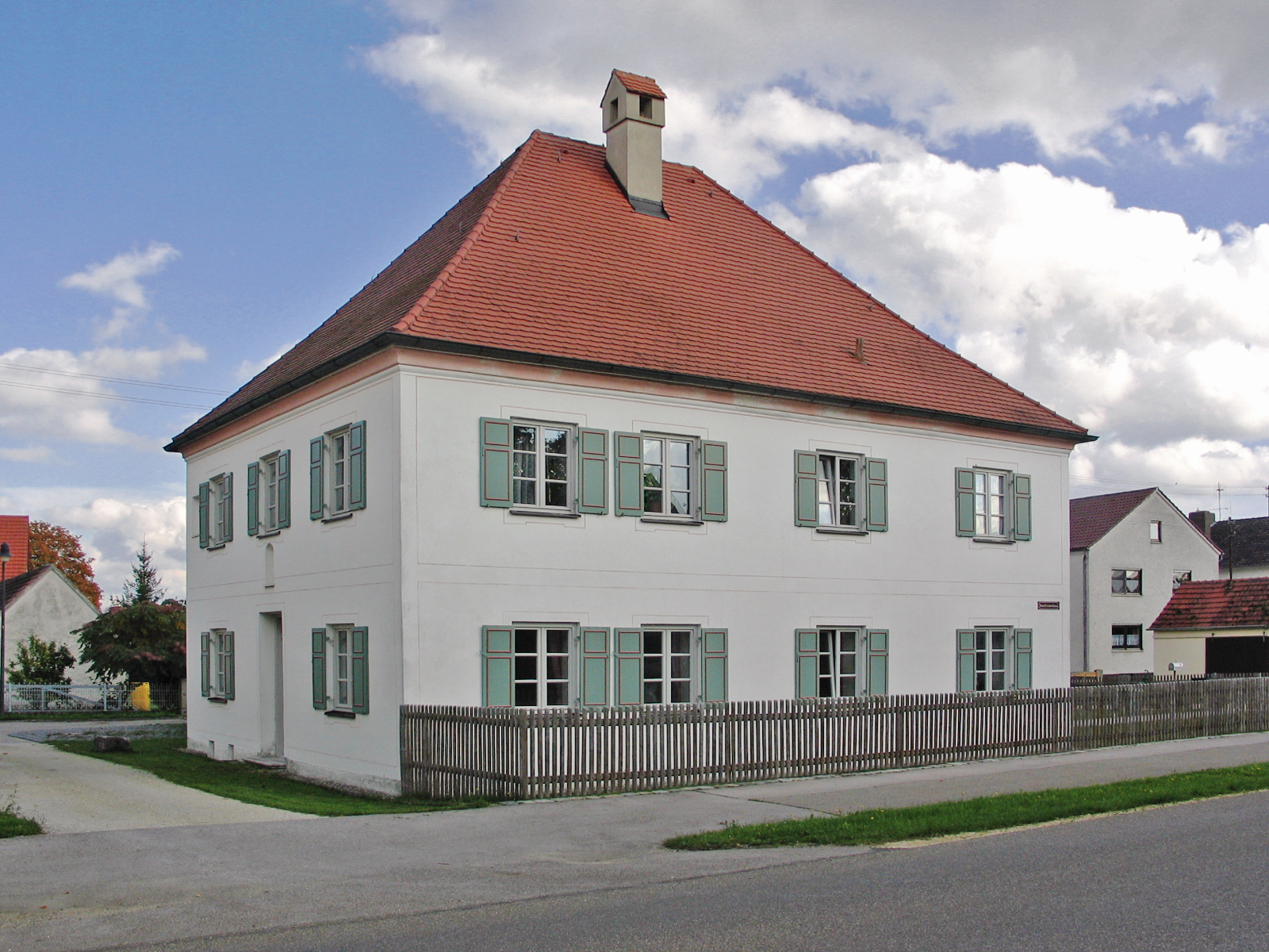 Lichtenau (District of Neuburg-Schrobenhausen), view of the beneficiarius' mansion from north-east.